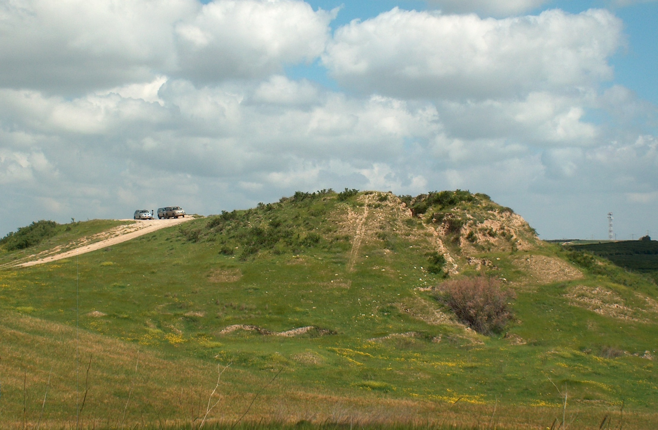 Flinders petrie excavated in 1890-Tell el Hesy - Israel c. 2009